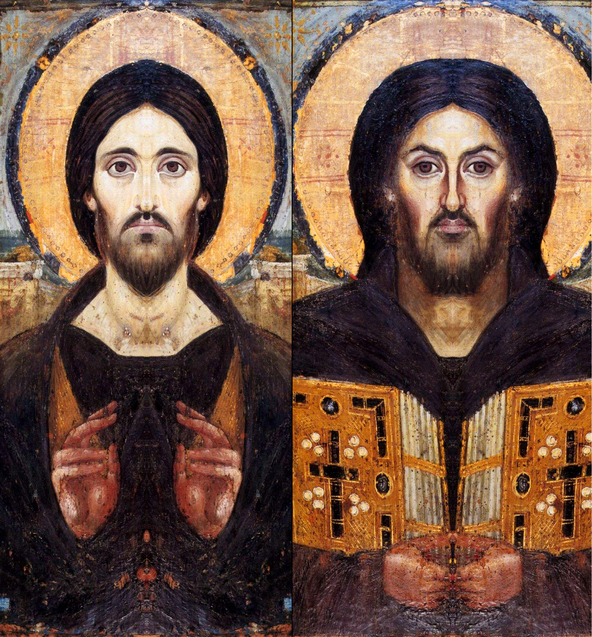 Photoshop composites of the two sides of the face to make it vastly easier for people to visualize the two different depictions. Also, I corrected the damage to the right eye from the deterioration of the piece due to age. I did not correct the distortion of the neck (a common flaw of such composites) in order to make minimal changes to the image.